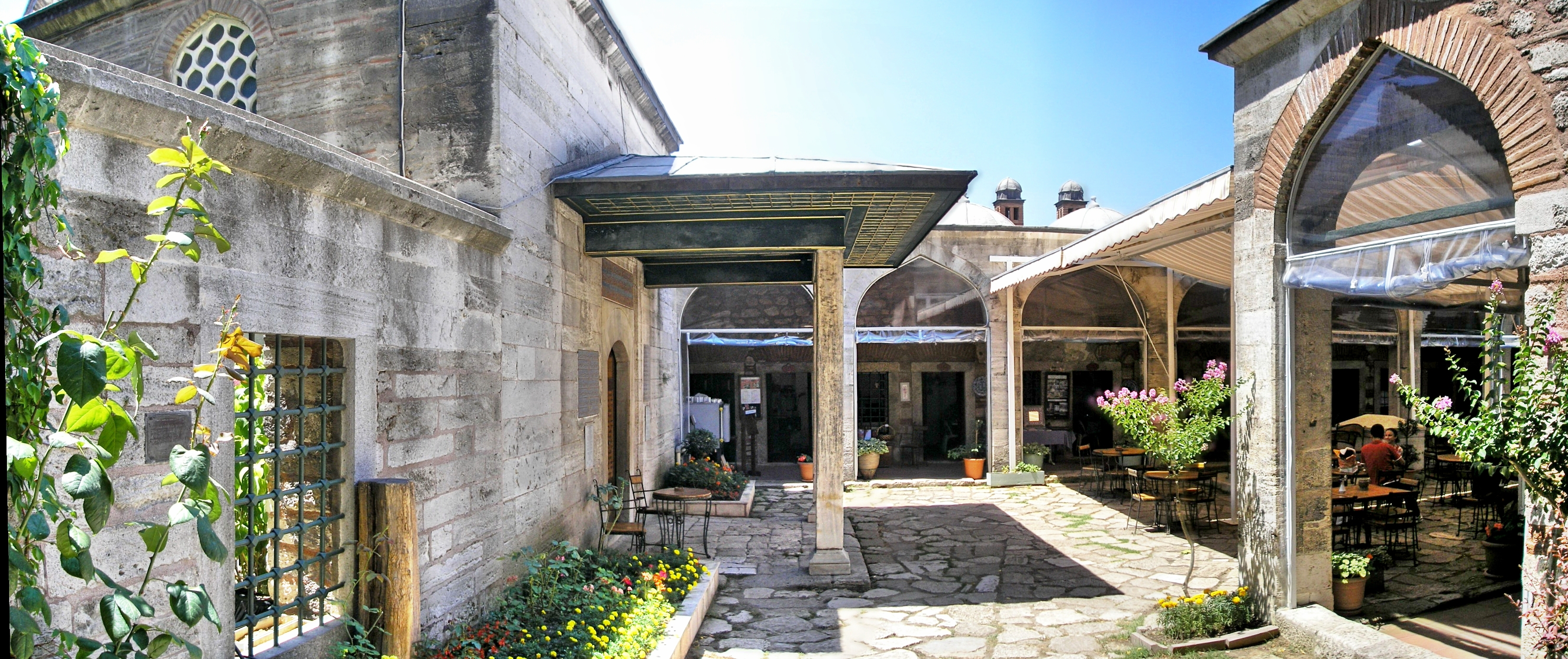 The Caferağa Medresseh in Istanbul was built in 1559 by Sinan by orders of Caferağa, a eunuch during the reign of Sultan Süleyman the Magnificent. Today it houses a handicrafts centre and a restaurant This panoramic image was created with Autostitch (stitched images may differ from reality).